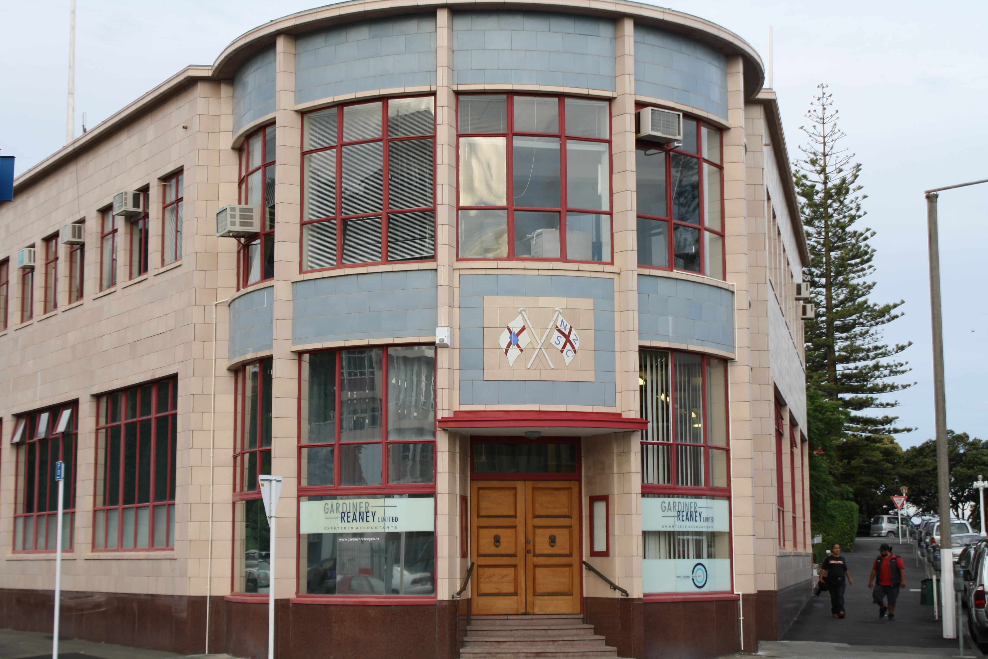 Former New Zealand Shipping Company Building in Napier, at the corner of Browning and Byron Streets